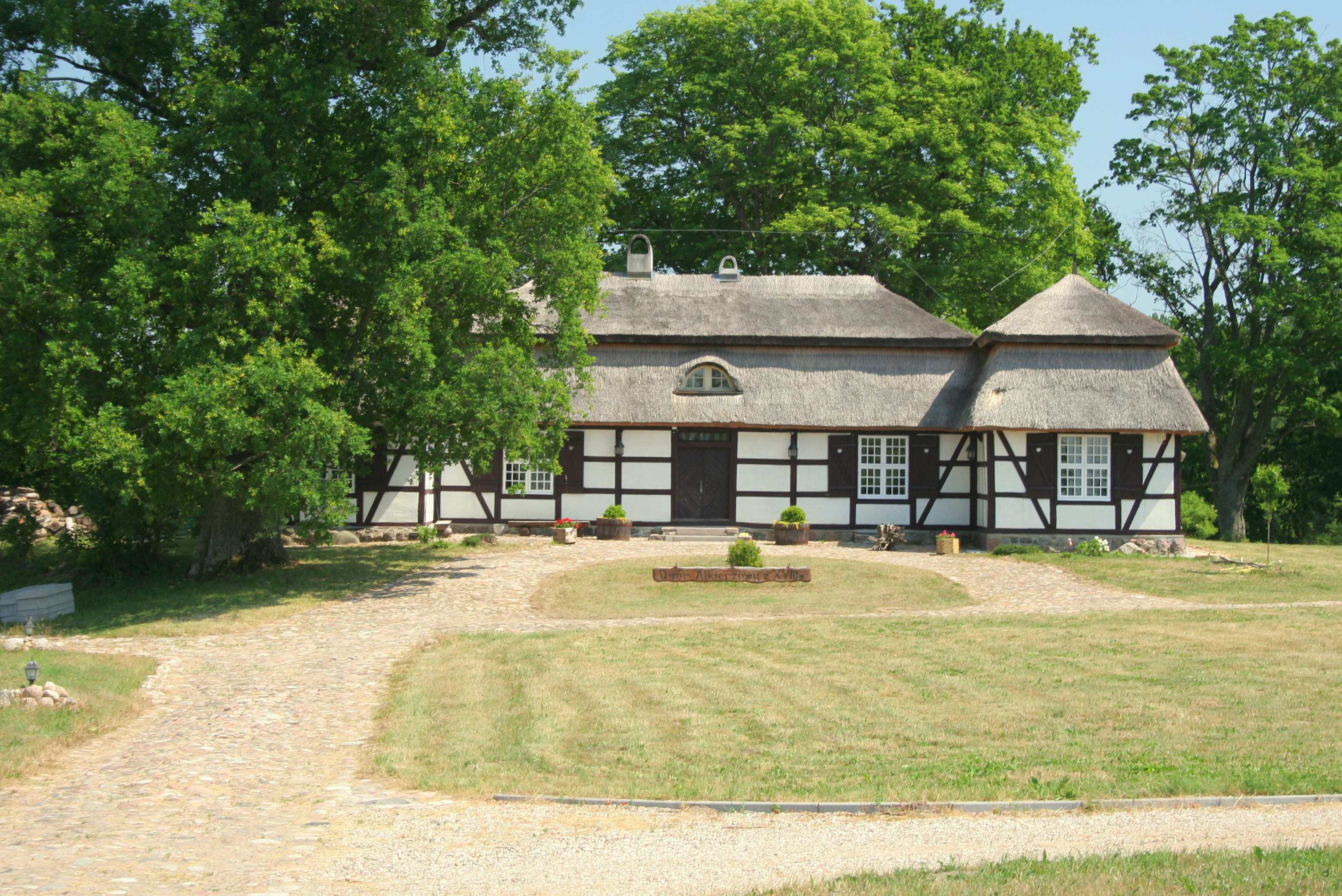 Manor house in Salino.